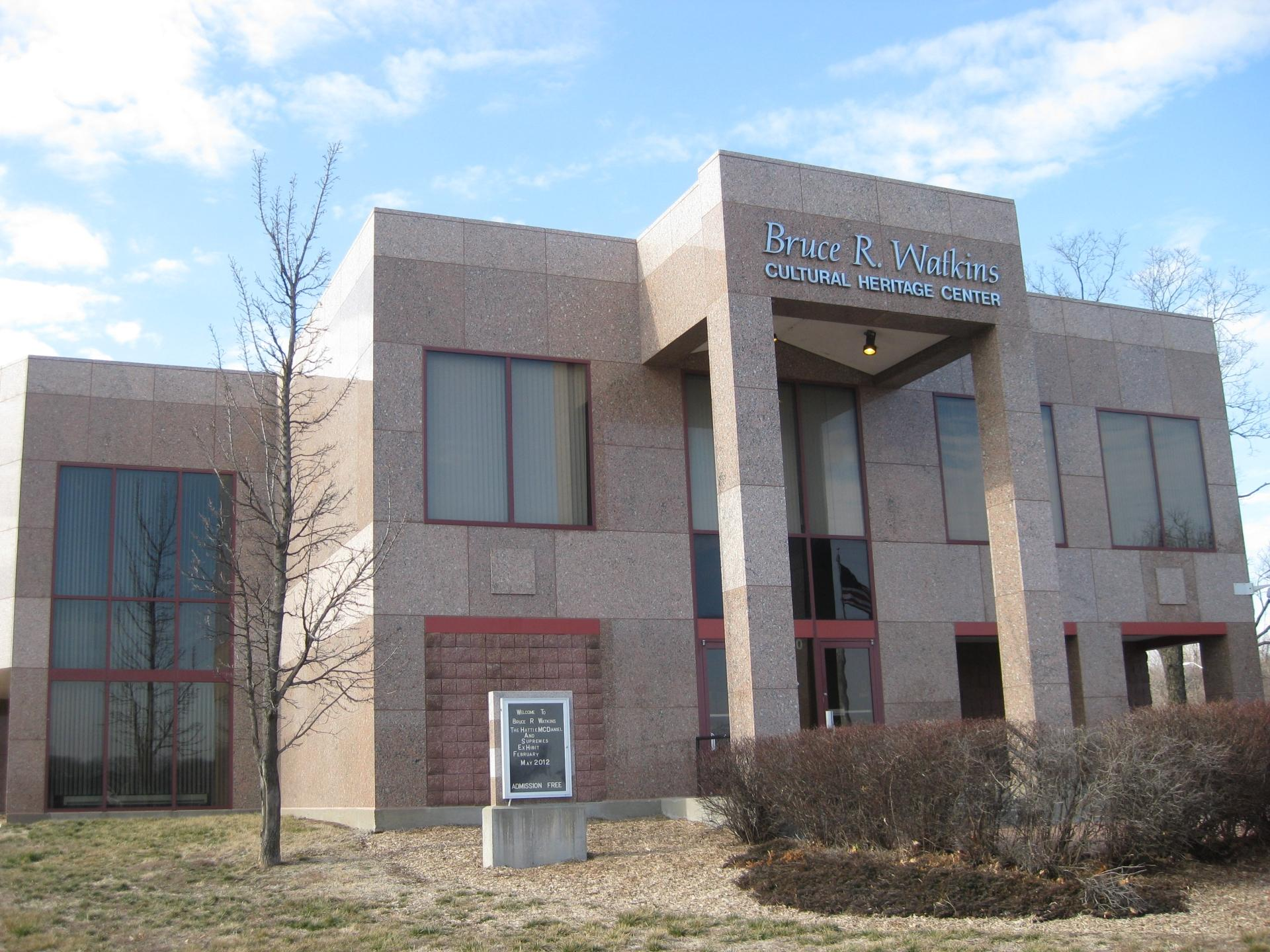 photograph of Bruce R Watkins Cultural Heritage Center in Kansas City, Missouri, February, 2012.